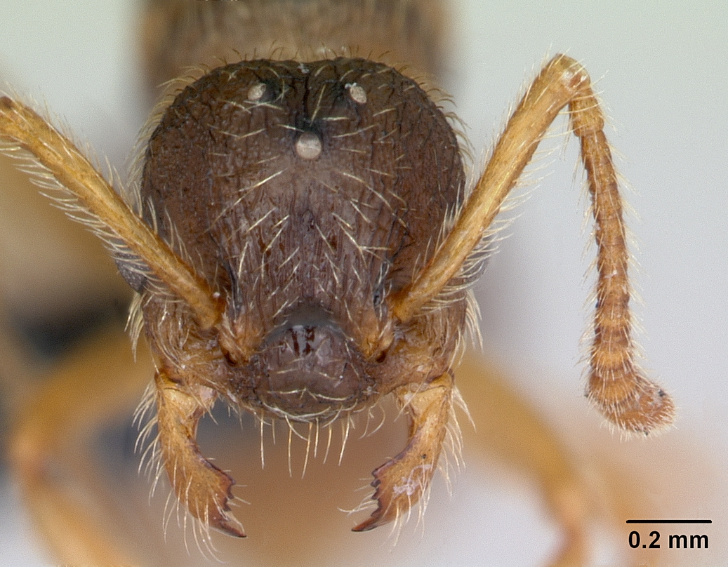 Head view of ant Myrmica karavajevi specimen casent0172766.